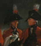 Detail from a smaller copy of the large painting destroyed in the 1992 Windsor Castle fire.